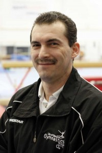 Marius Costel Gherman (born July 14, 1967) is a Romanian artistic gymnast who represented Romania at the 1988 Olympic Games and at the 1992 Olympic Games.